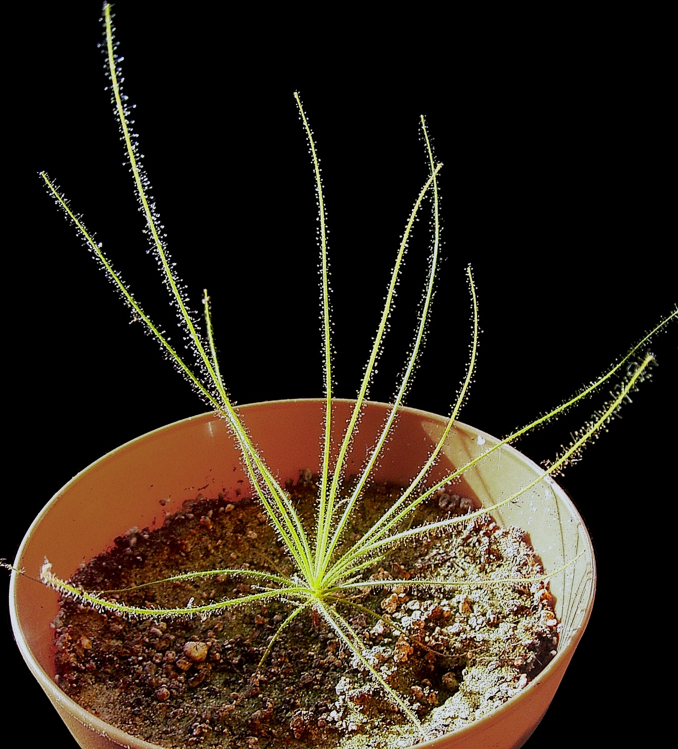 Byblis lamellata Author: Denis Barthel